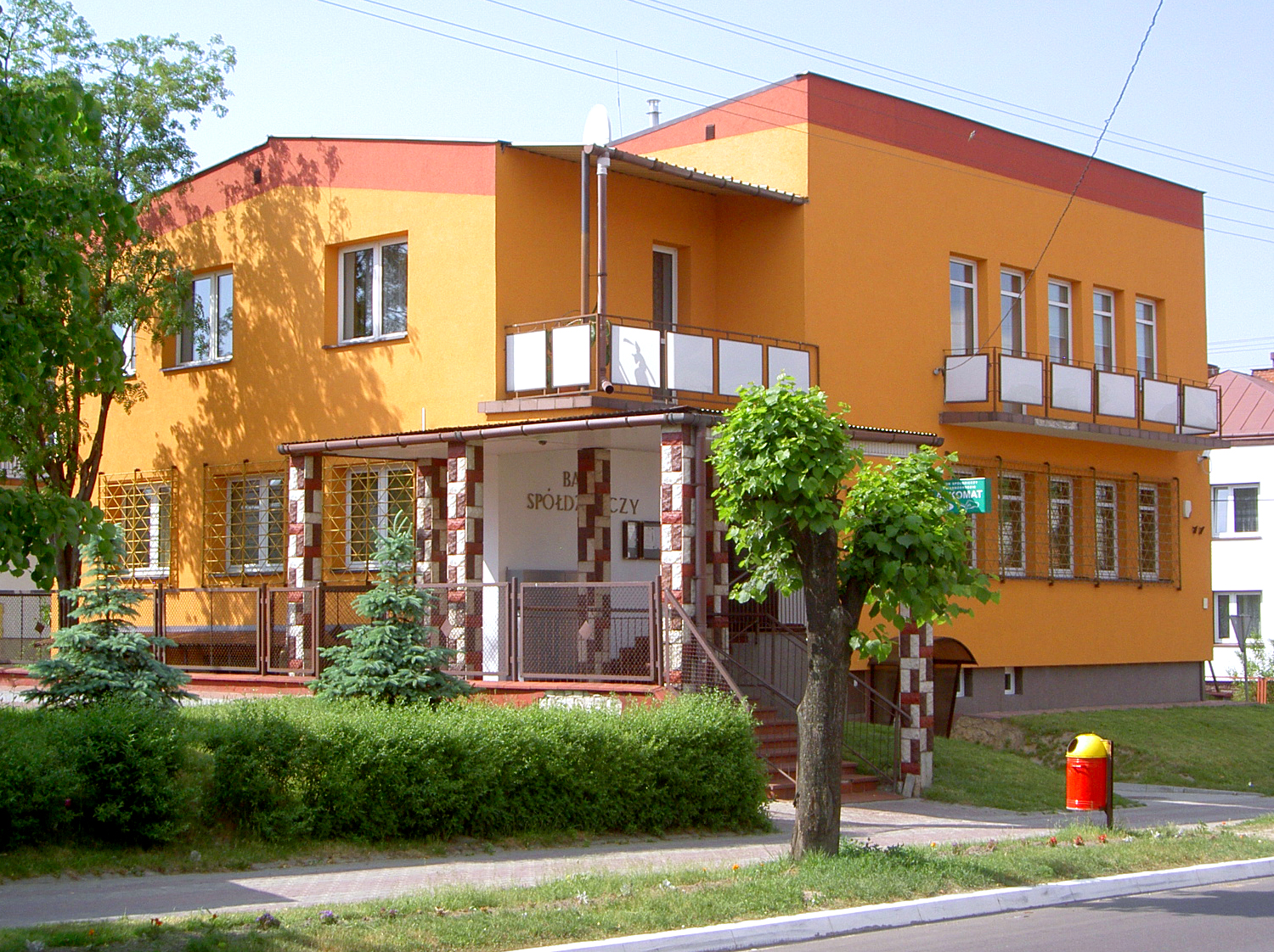 Tarnogród, Poland – building of cooperative bank.